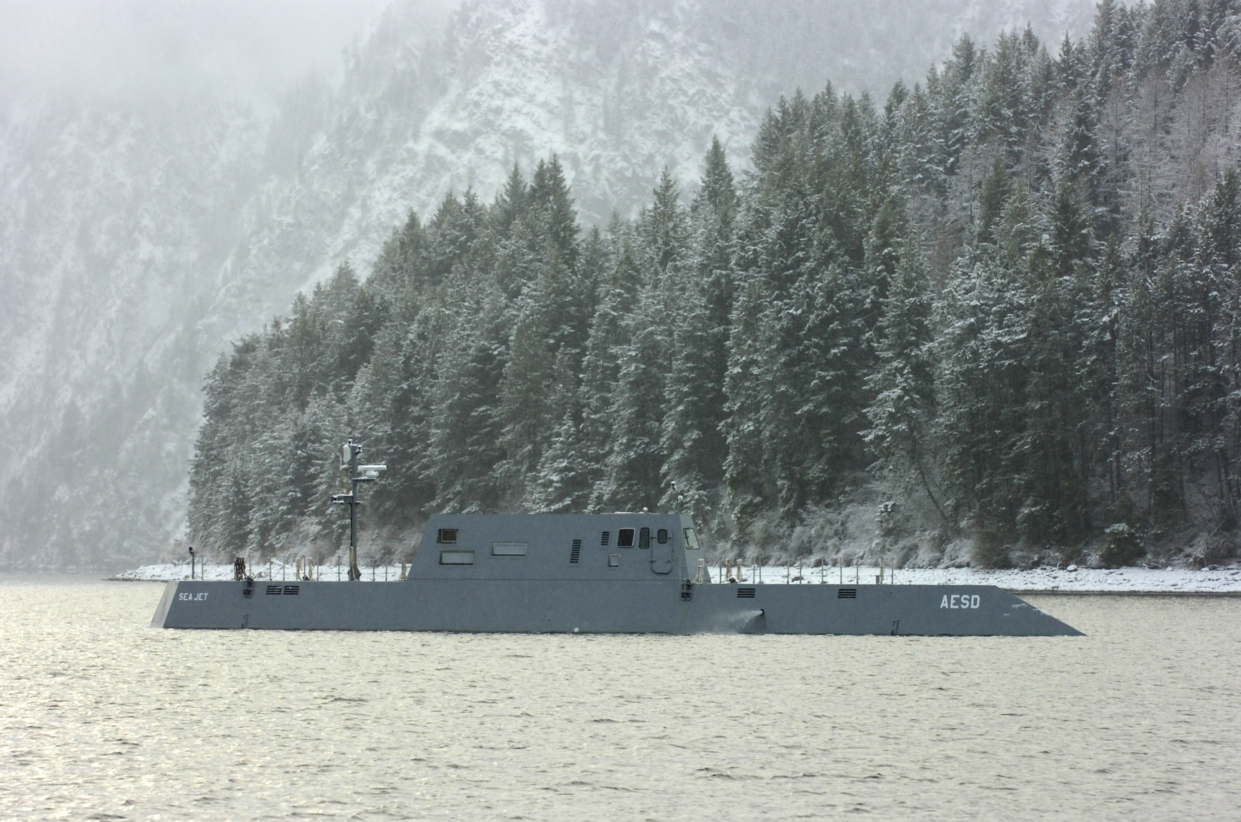 Bayview, Idaho (Nov. 30, 2005) - The Advanced Electric Ship Demonstrator (AESD), Sea Jet, undergoes sea trials on Lake Pend Oreille at the Naval Surface Warfare Center Carderock Division, Acoustic Research Detachment in Bayview, Idaho. Funded by the Office of Naval Research (ONR), Sea Jet is a 133-foot vessel testing an underwater discharge water jet from Rolls-Royce Naval Marine, Inc., called AWJ-21, a propulsion concept with the goals of providing increased propulsive efficiency, reduced acoustic signature, and improved maneuverability over previous Destroyer Class combatants. U.S. Navy photo by Mr. John F. Williams (RELEASED)